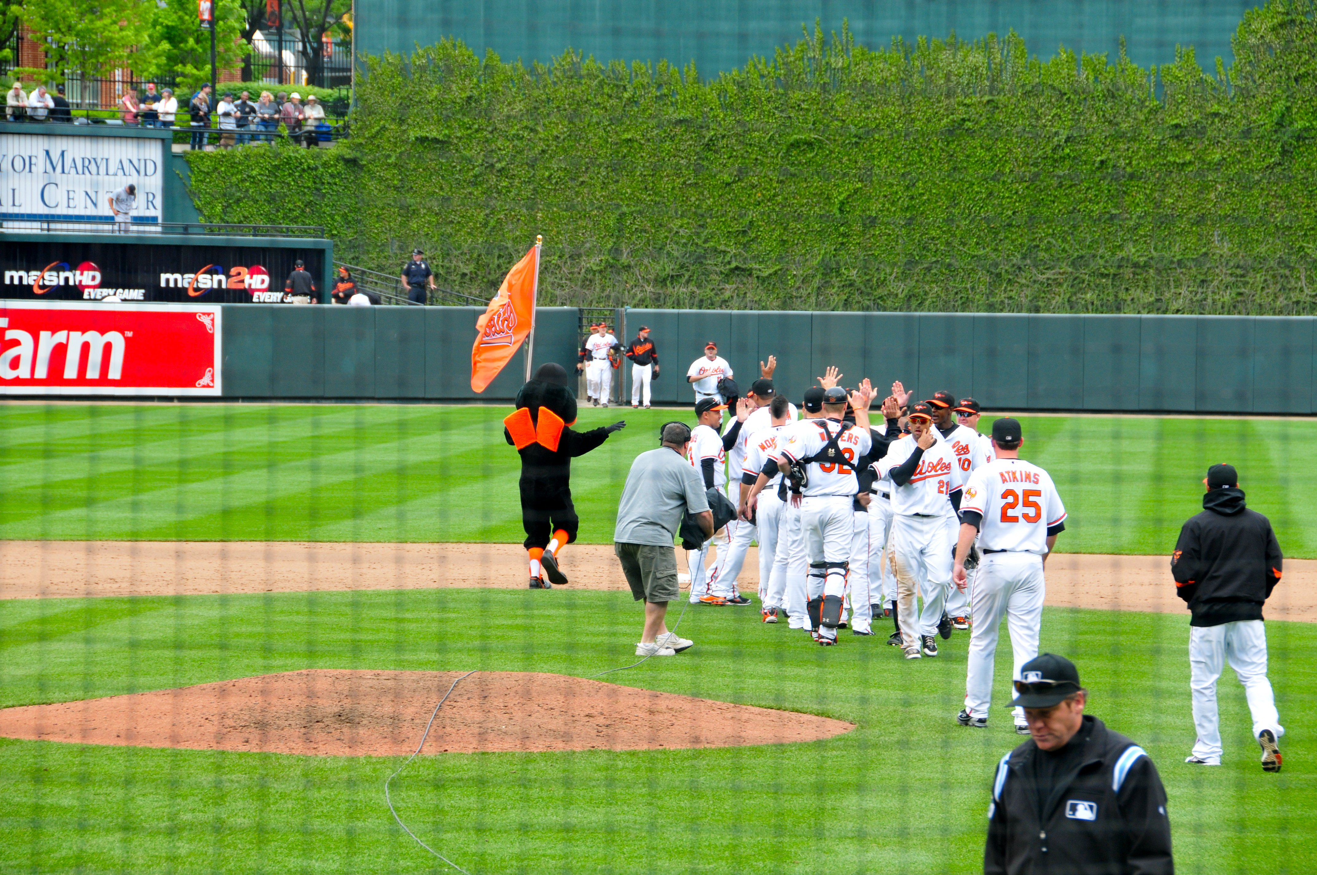 Baltimore Orioles celebrate after beating Seattle Mariners on May 13 2010.